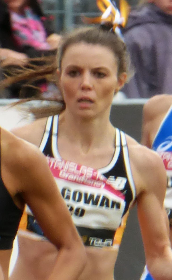 2016 Meeting Stanislas